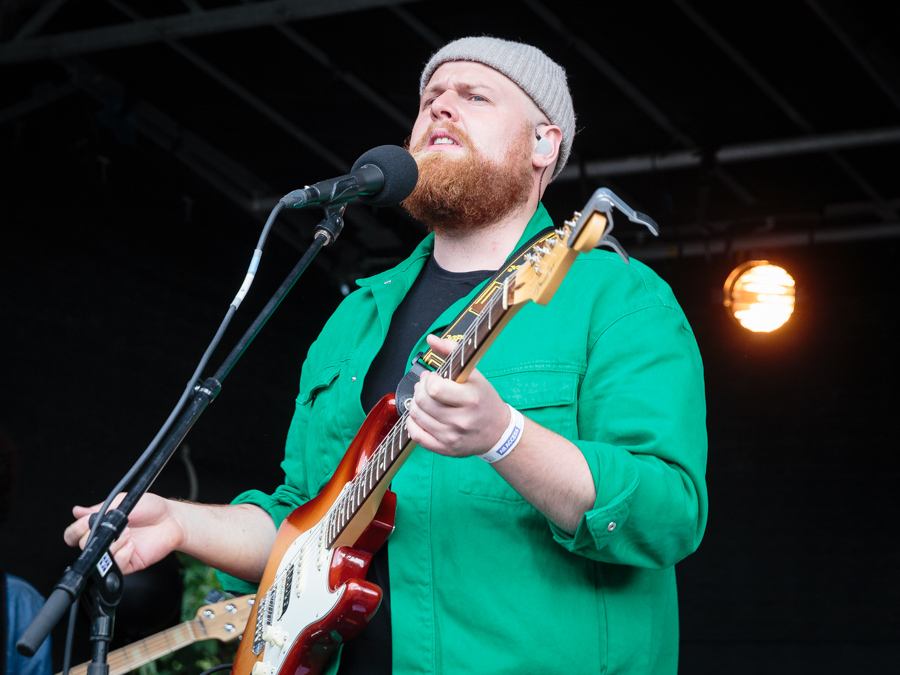 Tom Walker at the Triangel stage in the Vigeland Park. The concert was part of Piknik i Parken and took place on 15. June 2018 in Oslo. Lineup:Tom Walker (vocal and guitar)Unidentified (keyboard)Unidentified (bass guitar)Unidentified (drums)